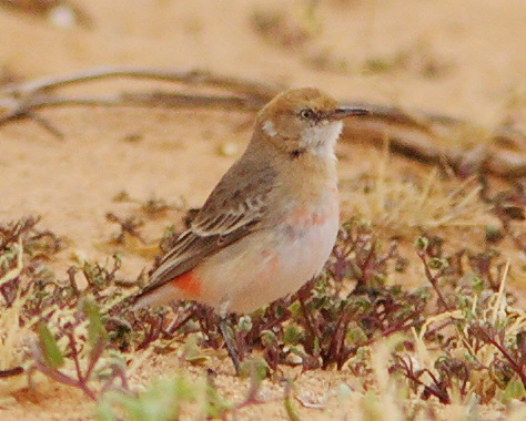 Crimson Chat, female, Epthianura tricolor; wild bird